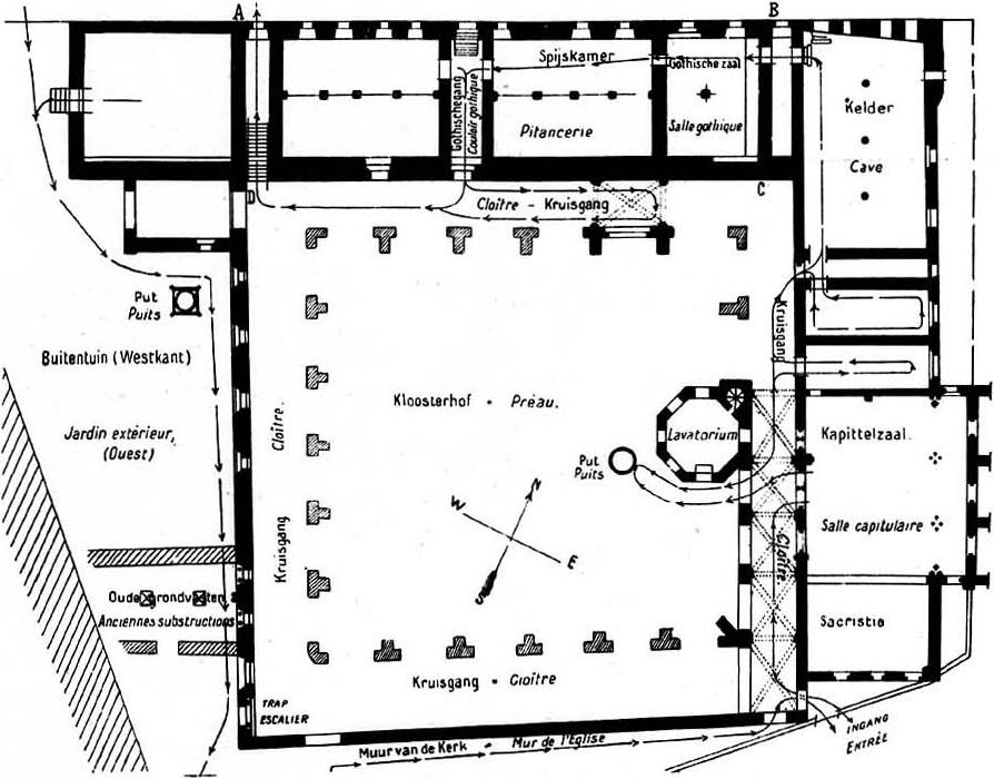 Sint-Baafsabdij, Ghent, plan.